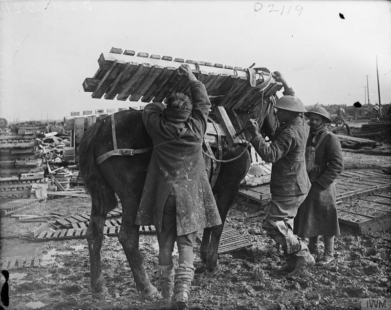 The Battle of Passchendaele, July-november 1917 A packhorse being loaded with duckboards at Wieltje, 12 October 1917.